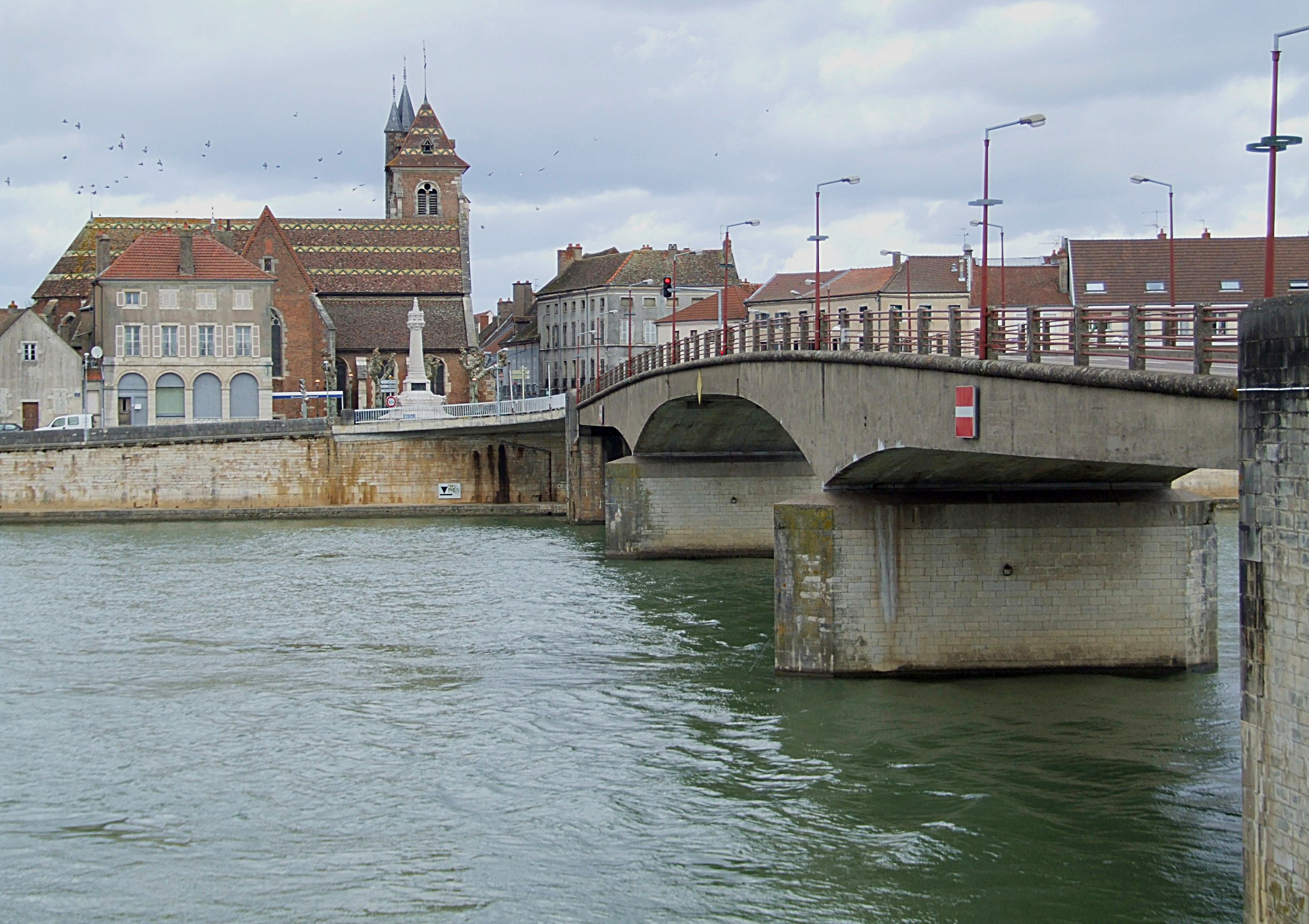 Saône river, Saint-Jean de Losne, Burgundy, FRANCE